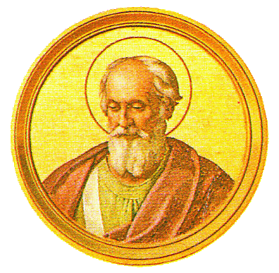 Pope Eusebius I